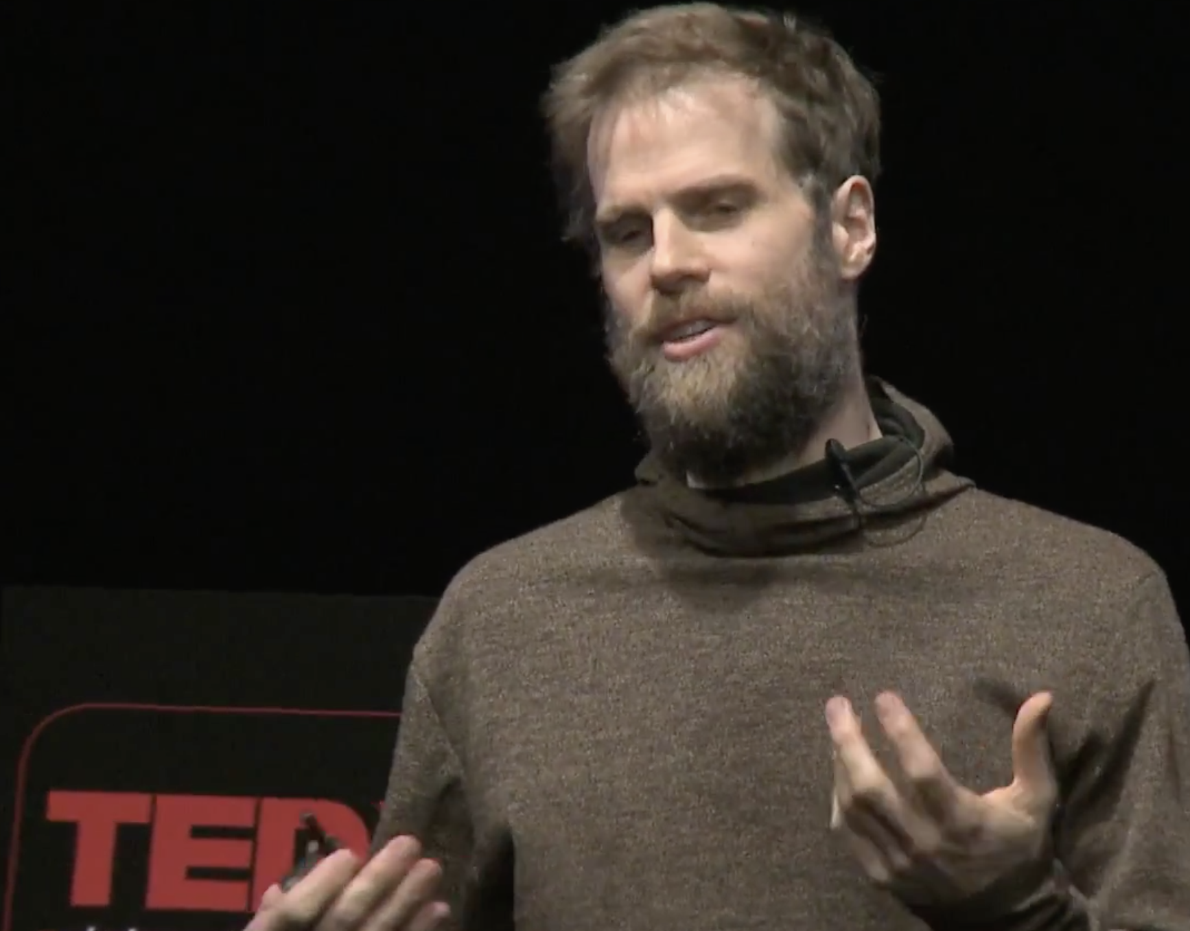 Joe Betts-LaCroix speaking at TEDxSF 2011